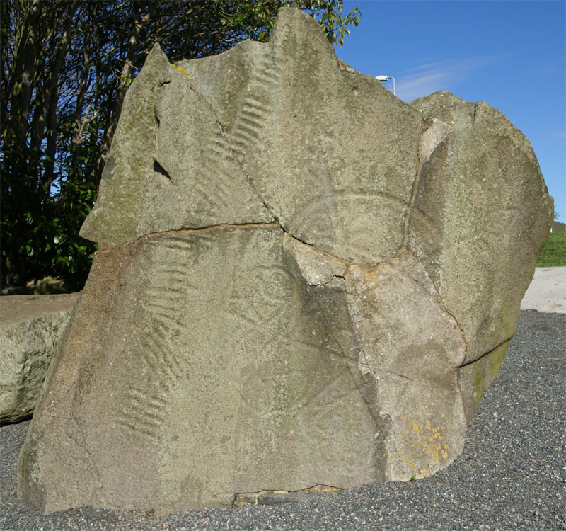 Brandsbutt Symbol Stone (Aberdeenshire, Scotland)